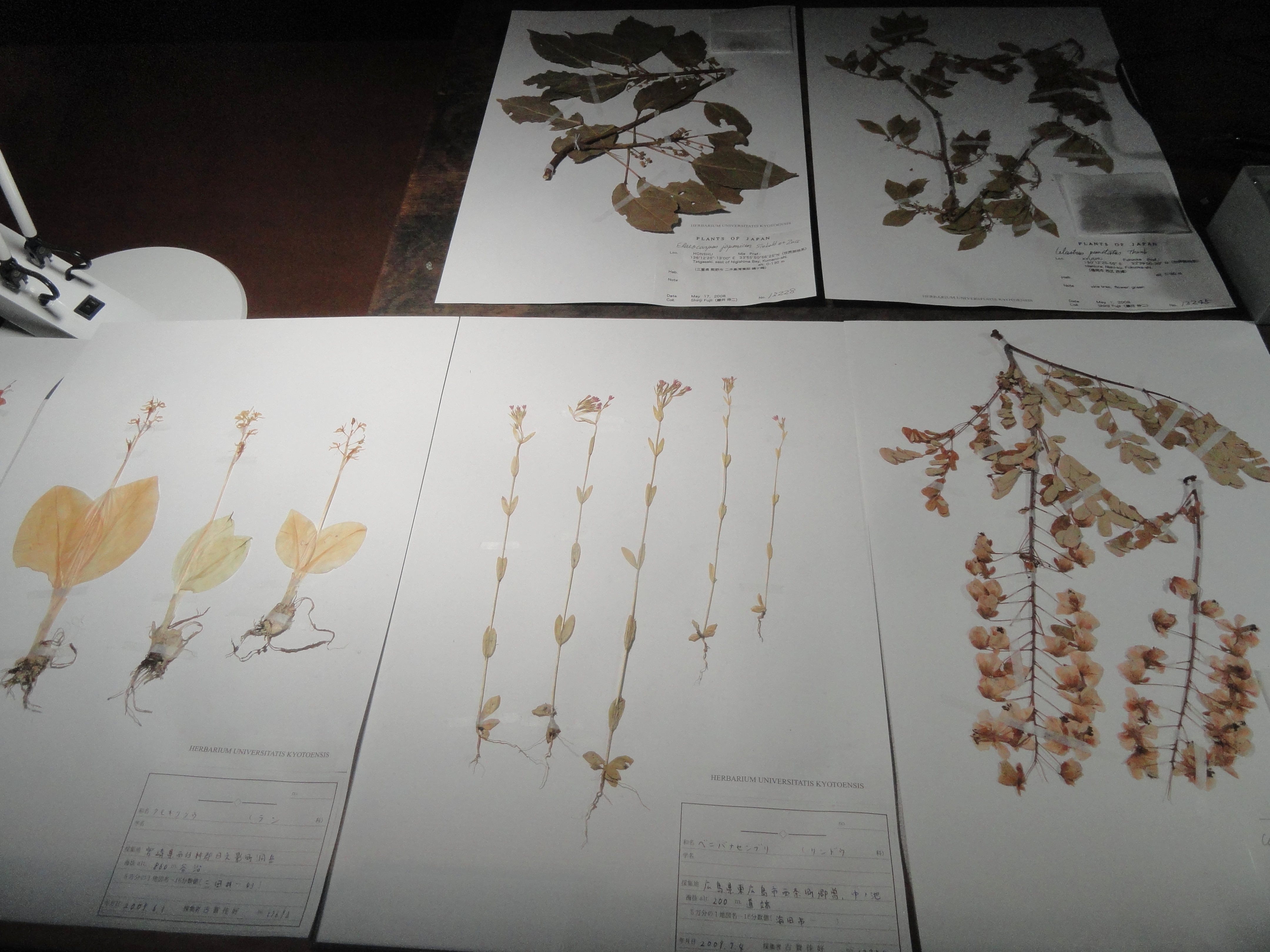 Exhibit in the Kyoto University Museum, Kyoto, Japan.